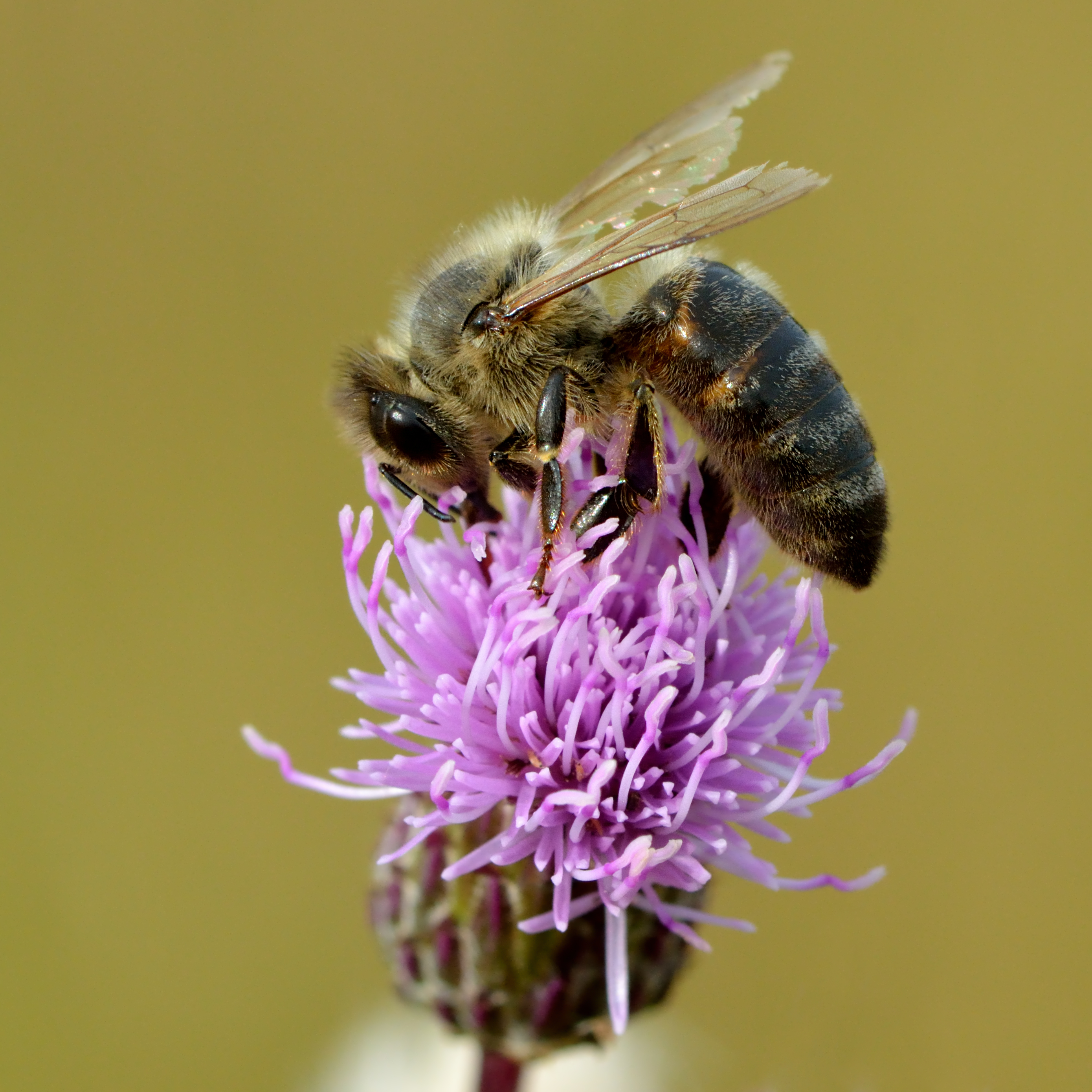 Honey bee (Apis mellifera) pollinates creeping thistle (Cirsium arvense). Keila, Northwestern Estonia.